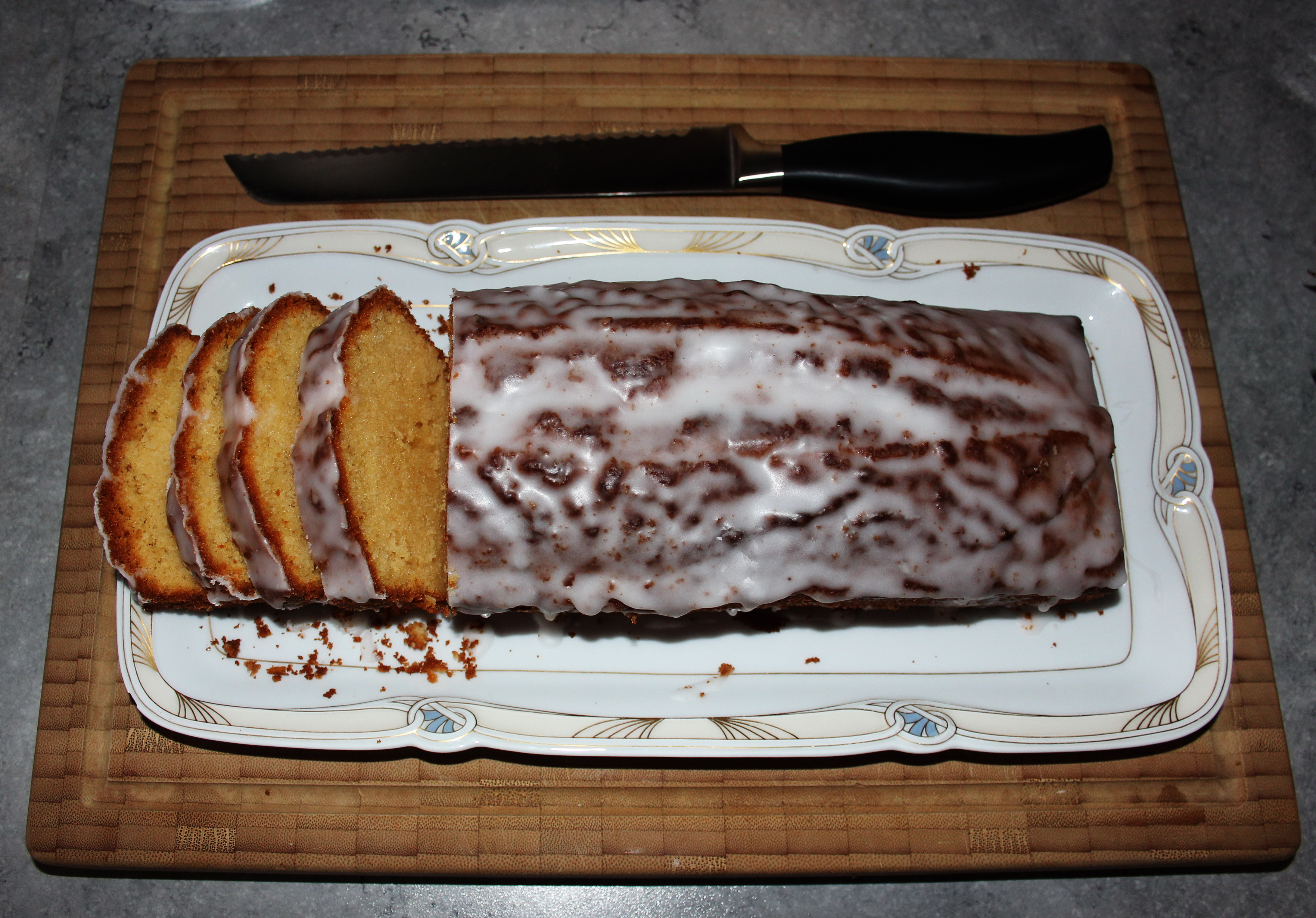 Lemon cakes